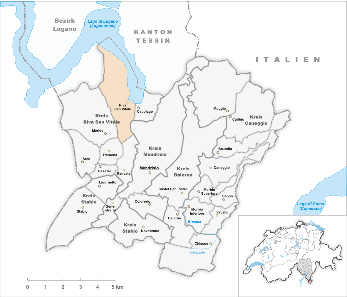 Municipality Riva San Vitale